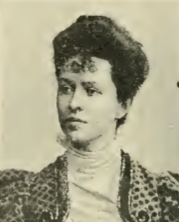 Henriette Daux (1866-1953, épouse Alfred Roll en 1904) d'après Benque.